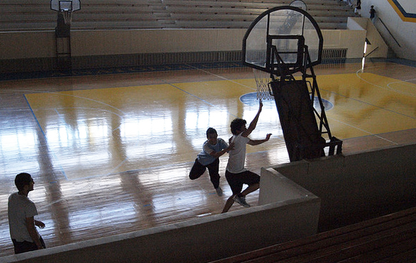 Anatolia College indoor gym facilities, Greece. Anatolia College (Greek: Κολλέγιο Ανατόλια, IPA: [koˈleʝio anaˈtolia]), or the American College (Greek: Αμερικάνικο Κολλέγιο, IPA: [ameriˈkaniko koˈleʝio]), is a private non-profit educational institution located in Pylaia, a suburb of Thessaloniki, Greece.